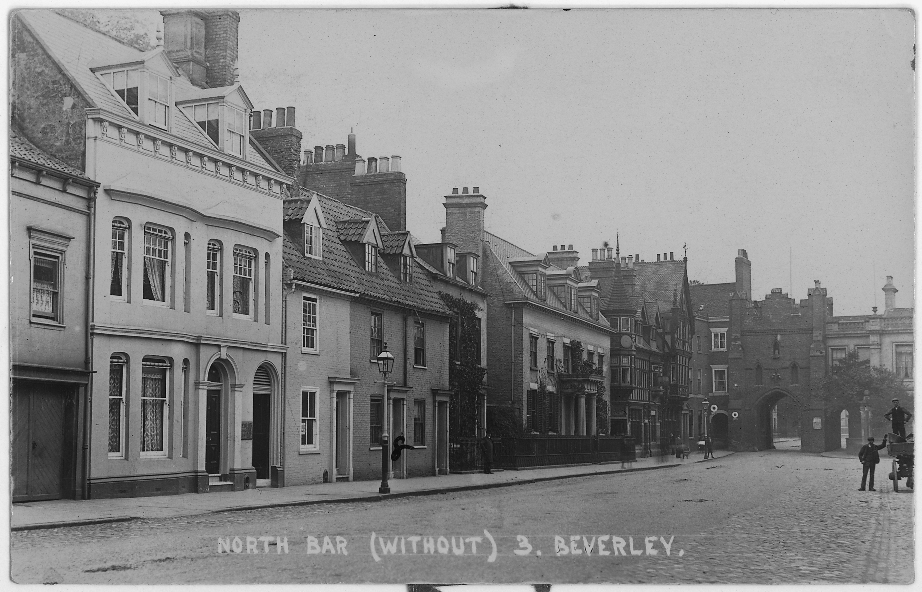 Scope and content: On backing : "This picture contained in small envelope marked in Mr. Wellcome's handwriting-'Beverly, Association' (meaning Beverly, England, associations of Wm. Duncan as a youth). Dr. Wellcome believes this is a relative of Mr. Duncan. 4/12/32." Also: Where Mr. Duncan attended school and also where he sang in the cathedral. N.S.W. 4/12/32."